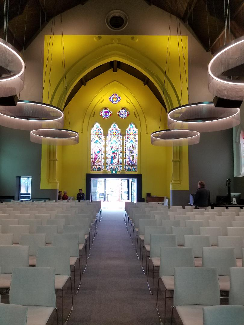 st judes carlton vic looking west